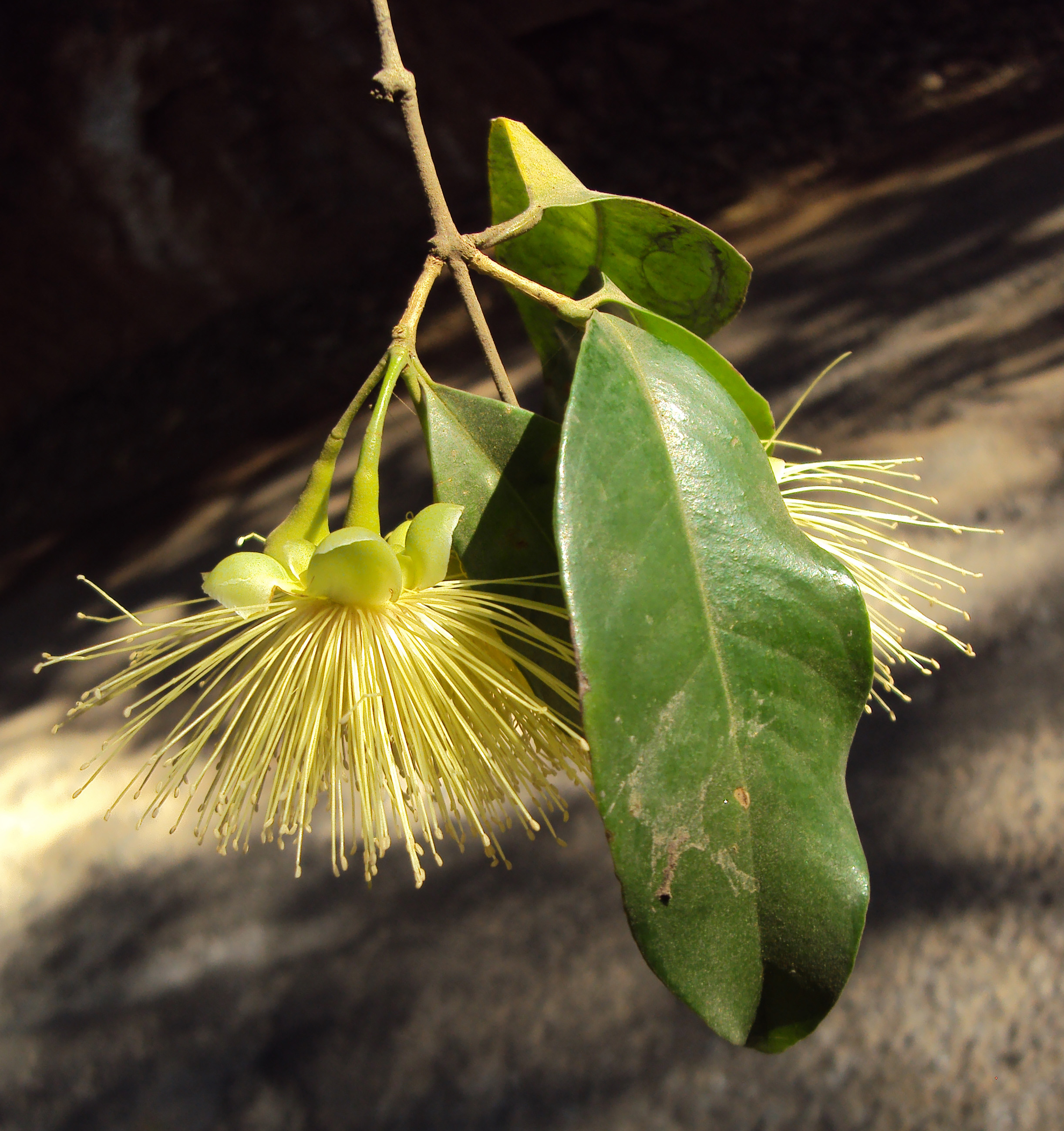 Syzygium laetum